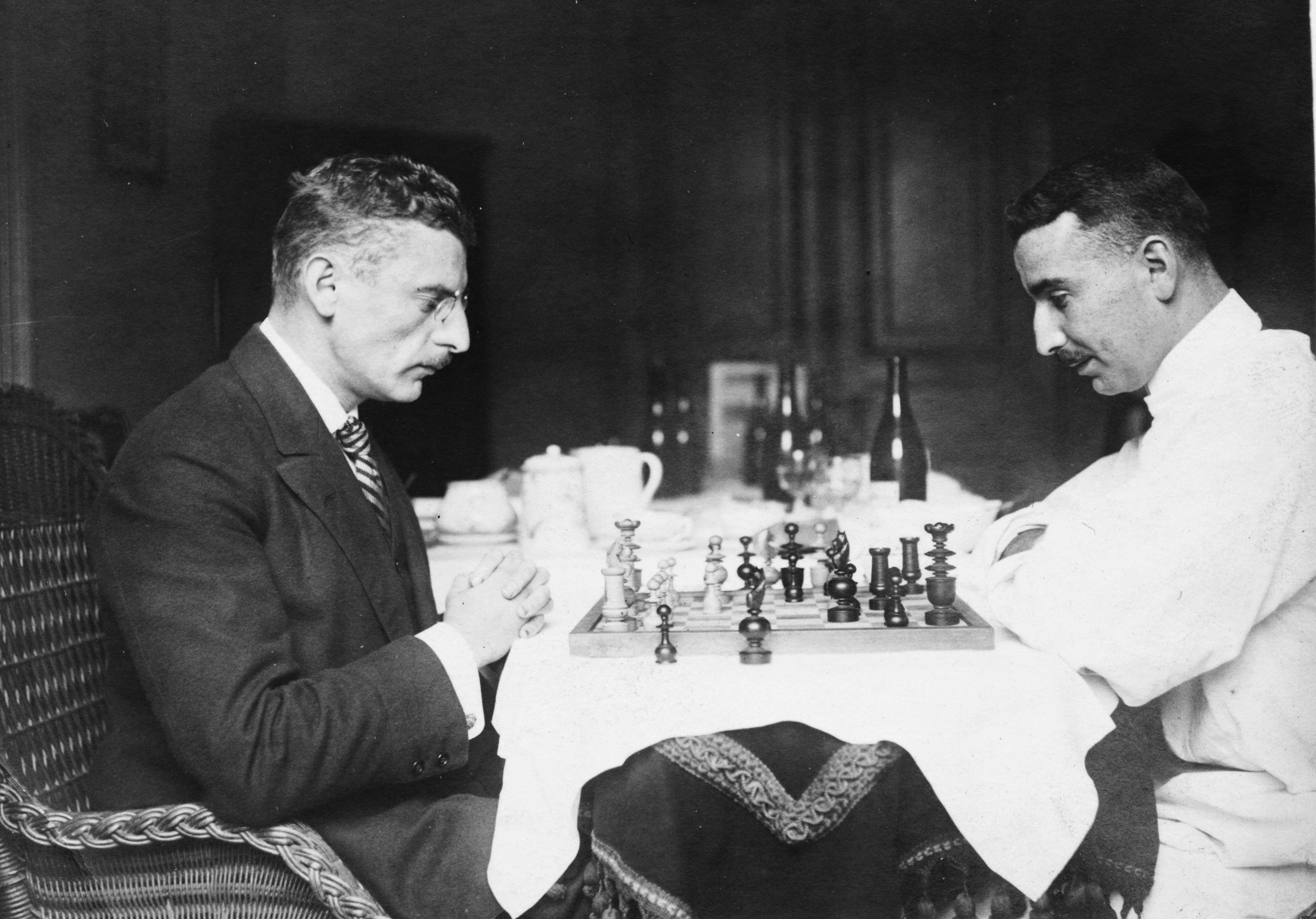 Hungary? Tags: chess table, wicker chair, chess, kettle, men